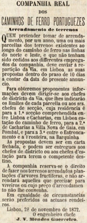 Advertisement of the Companhia Real dos Caminhos de Ferro Portugueses (Royal Company of the Portuguese Railways), for renting the terrains along its Northern and Eastern Railways. This image was published on the Diario Illustrado newspaper No. 153, of 30th November 1872, and scanned by the Biblioteca Nacional de Portugal.